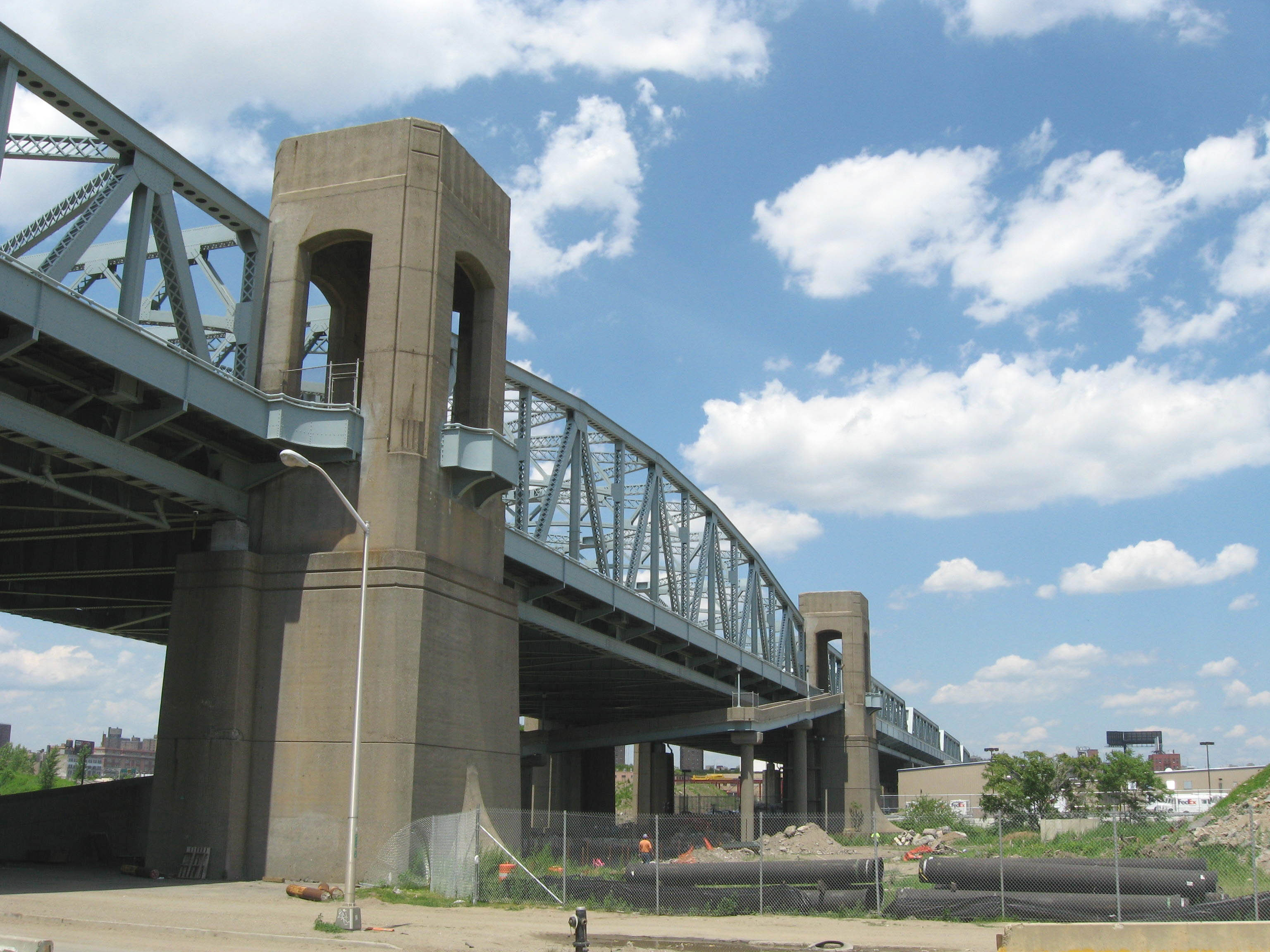 Looking north at Bronx Kill leg of Triboro Bridge on a sunny early afternoon.